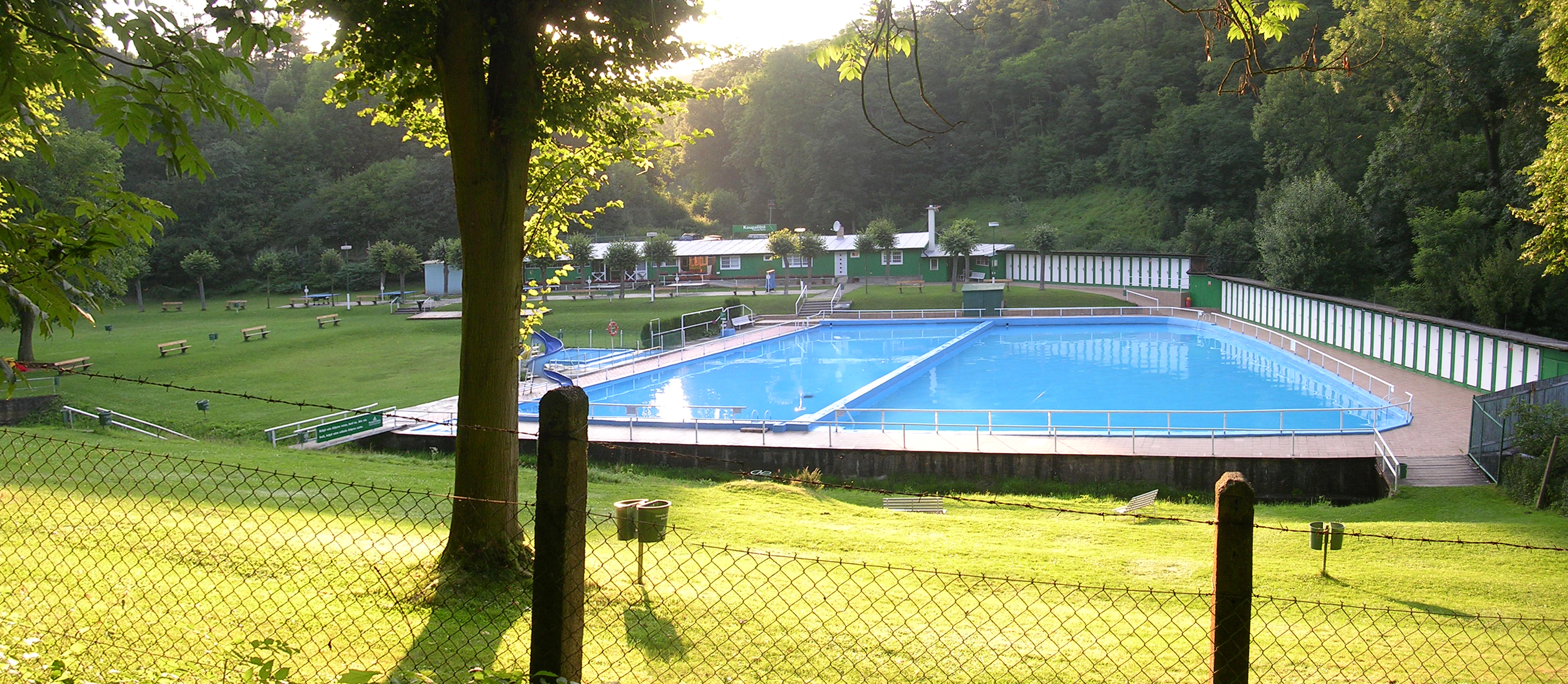 Liboc, Prague, the Czech Republic. Divoká Šárka swimming pool.